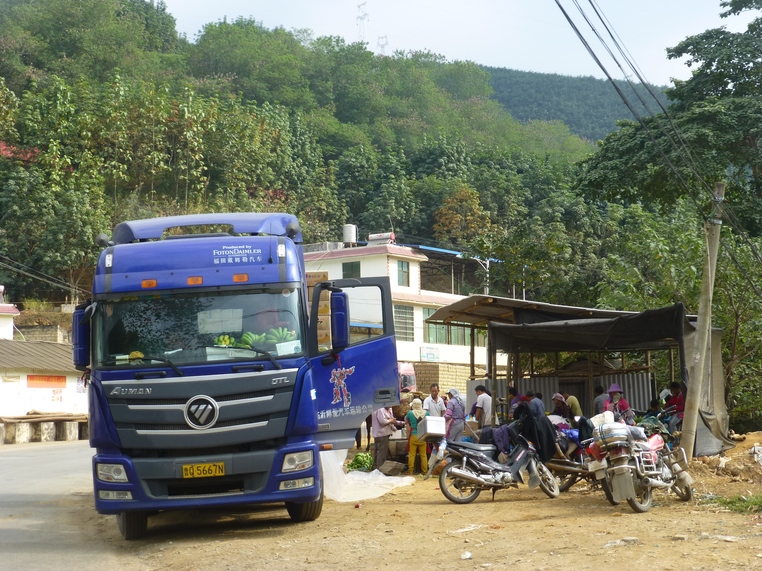 A "banana truck" from Shandong Province being loaded with bananas in the banana-growing district in the valley of the Red River. (Lianhuatan Village, a few km northwest from Lianhuatan Township center, Hekou County, Yunnan). Lots of trucks like this, from almost all provinces of China, can be seen in this area.